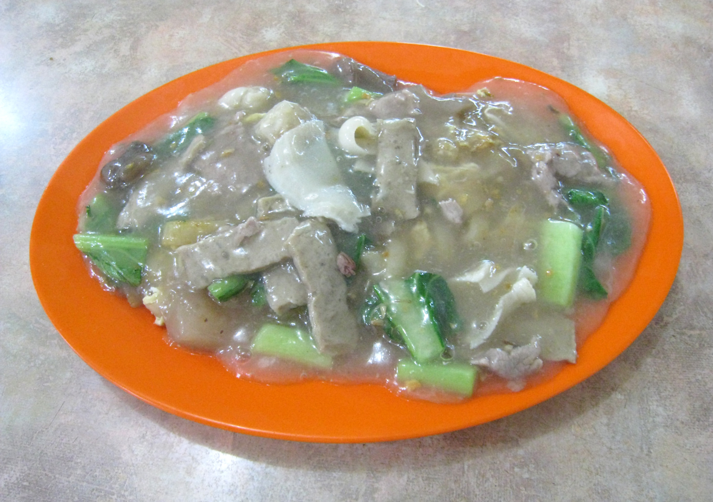 Kwetiau siram sapi (flat rice noodle poured with thick sauce) with beef and vegetables. Jalan Gajah Mada, Glodok, Jakarta Chinatown, Indonesia.